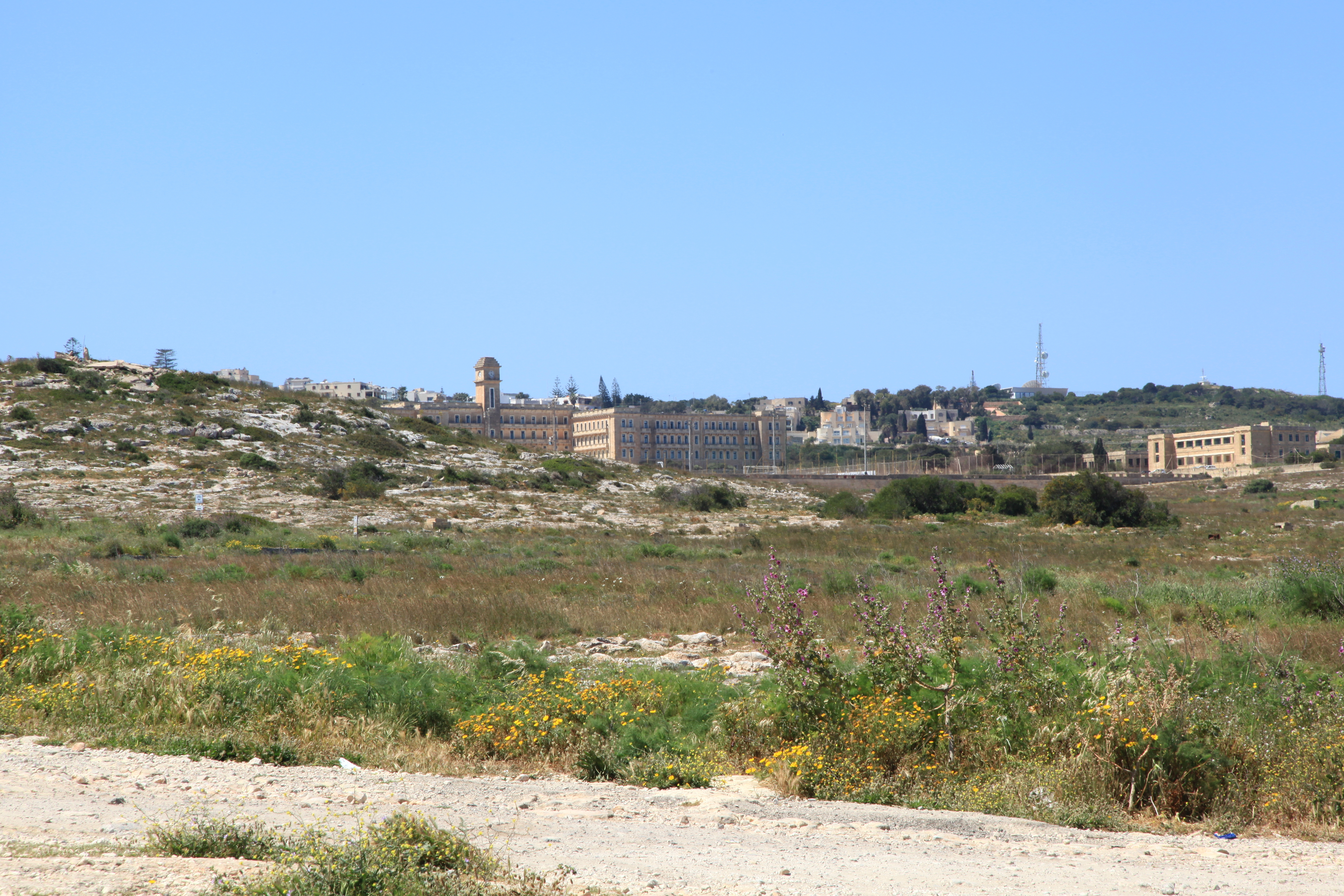 Nature reserve "Ix-Xatt, il-Wied u x-Xaghra go r-Rifle Ranges ta' Pembroke" at Triq il-Fortizza with the St Clare College in background in Pembroke, Malta